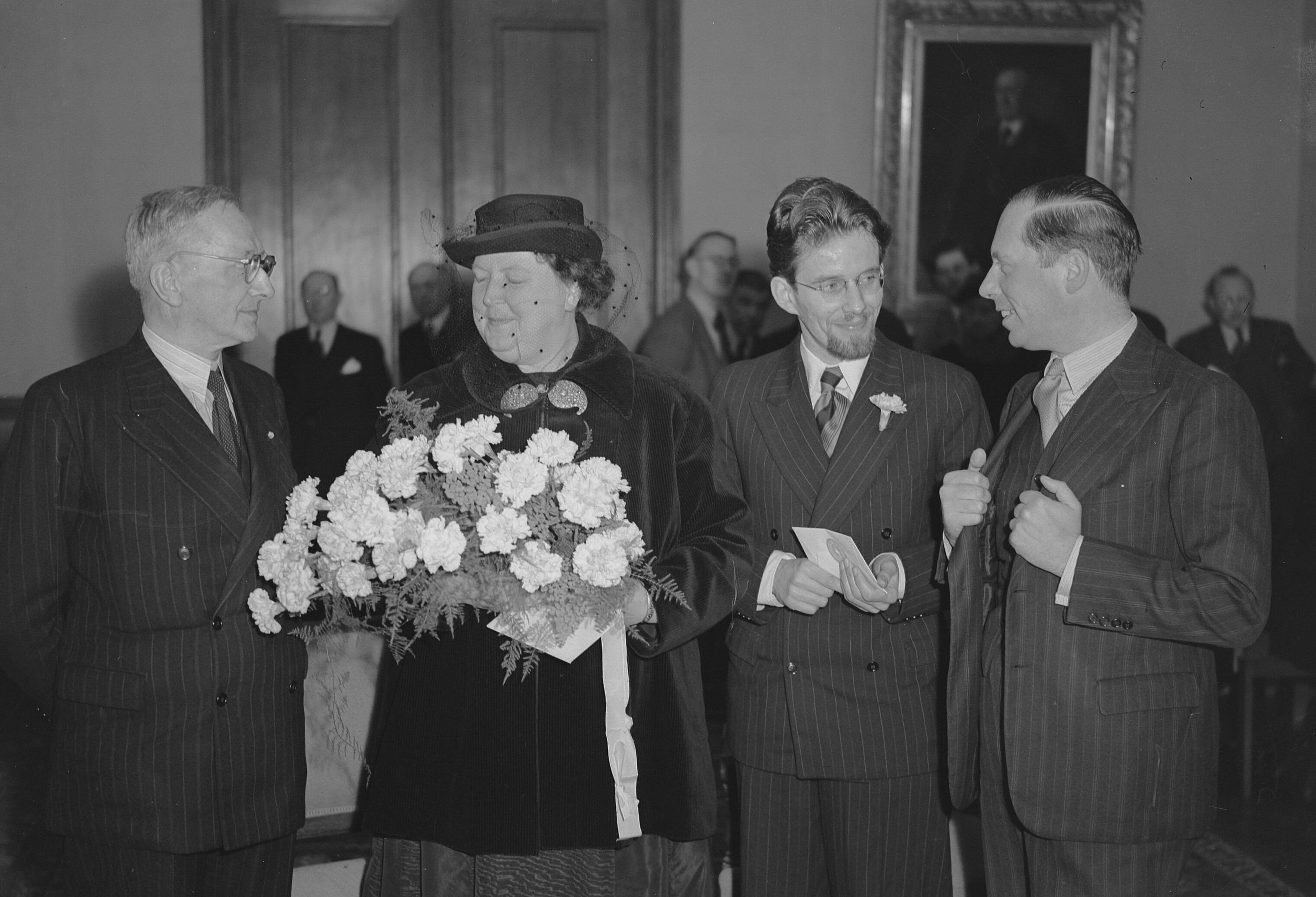 From left to right: F. Bordewijk, Jo Boer, Jan Elburg, unknown.